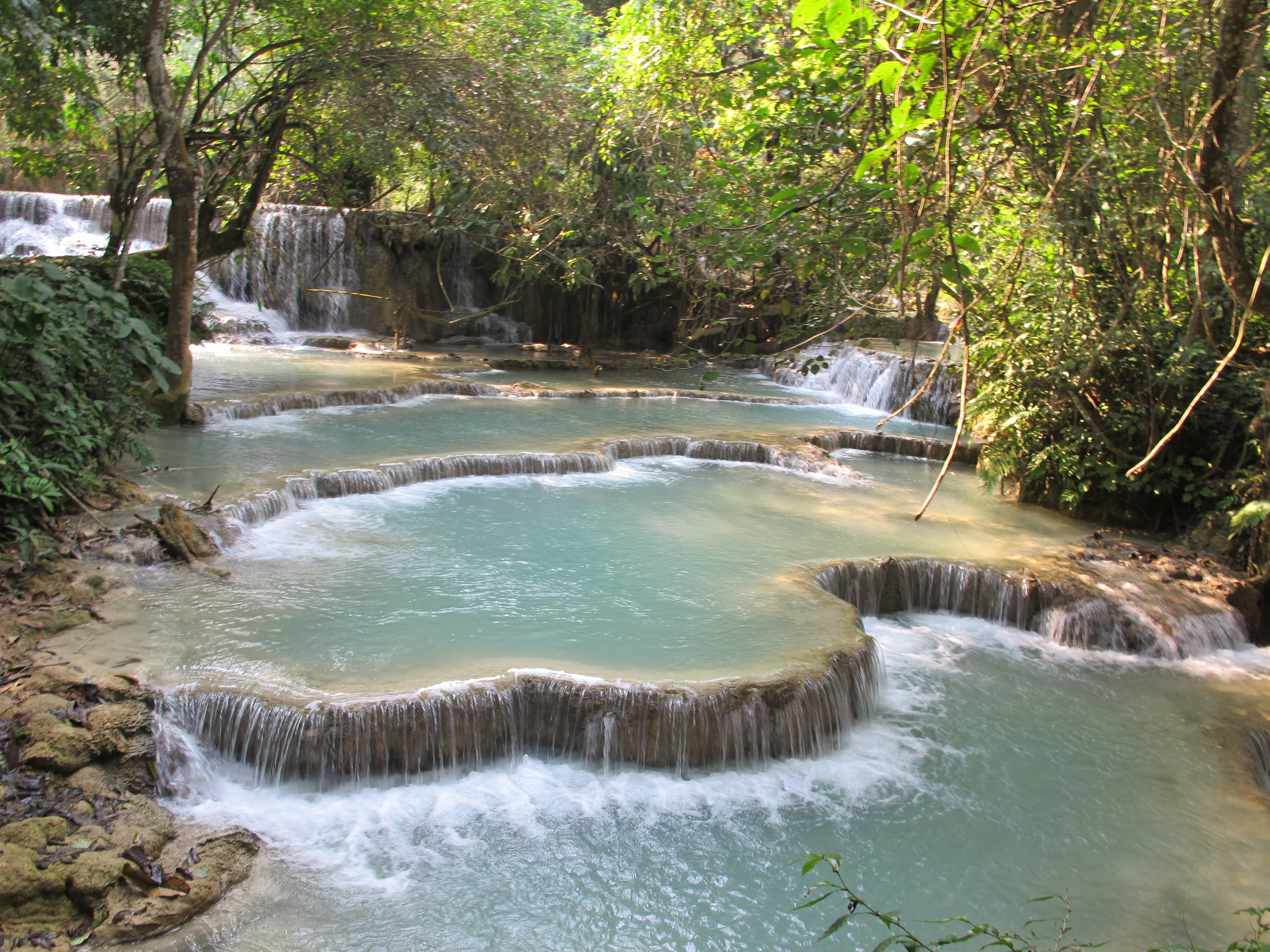 Kuang Si Waterfalls Luang Prabang